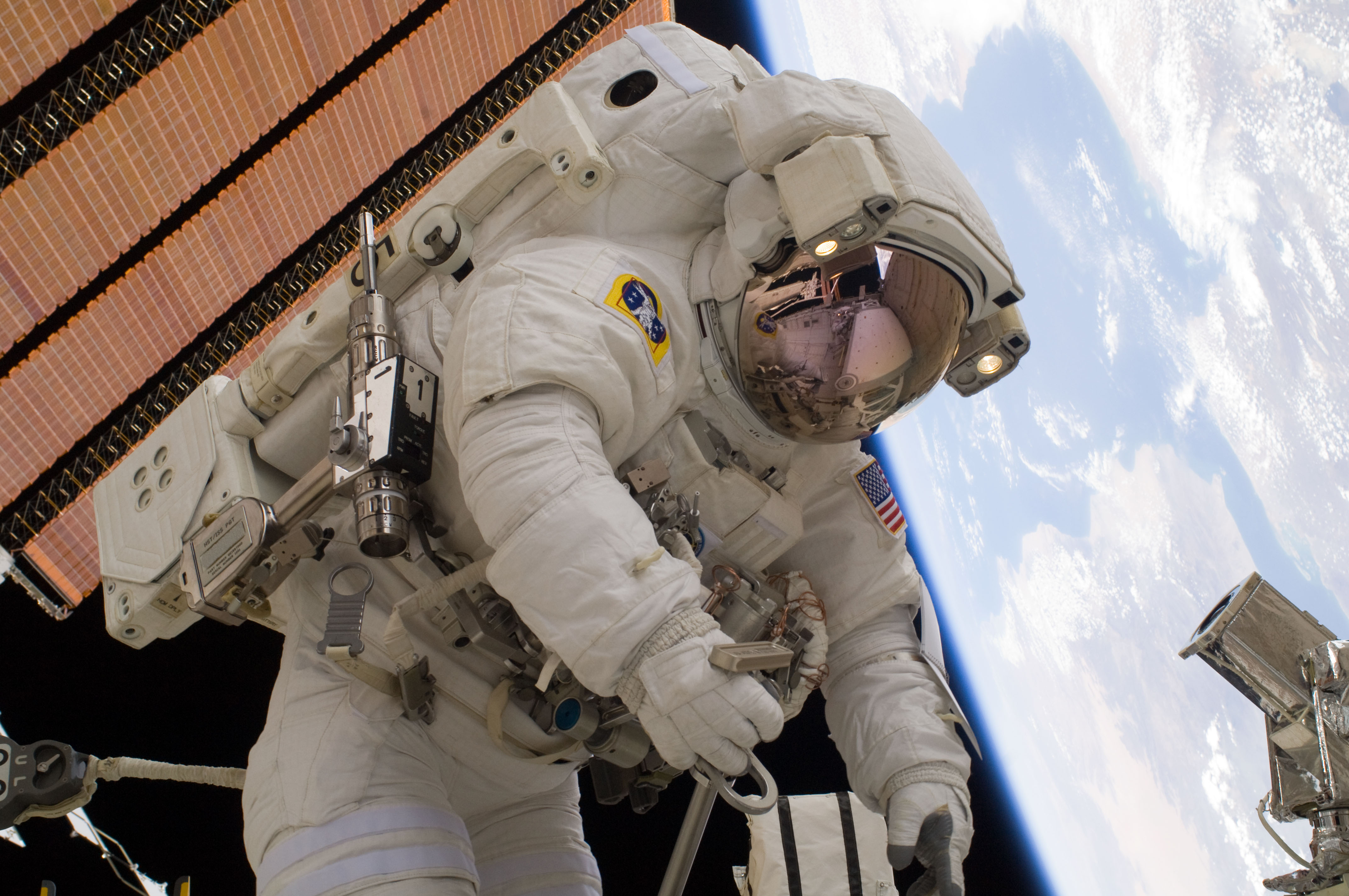 NASA astronaut Clayton Anderson, STS-131 mission specialist, participates in the mission's third and final session of extravehicular activity (EVA) as construction and maintenance continue on the International Space Station. During the six-hour, 24-minute spacewalk, Anderson and astronaut Rick Mastracchio (out of frame), mission specialist, hooked up fluid lines of the new 1,700-pound tank, retrieved some micrometeoroid shields from the Quest airlock's exterior, relocated a portable foot restraint and prepared cables on the Zenith 1 truss for a spare Space to Ground Ku-Band antenna, two chores required before space shuttle Atlantis' STS-132/ULF-4 mission in May.